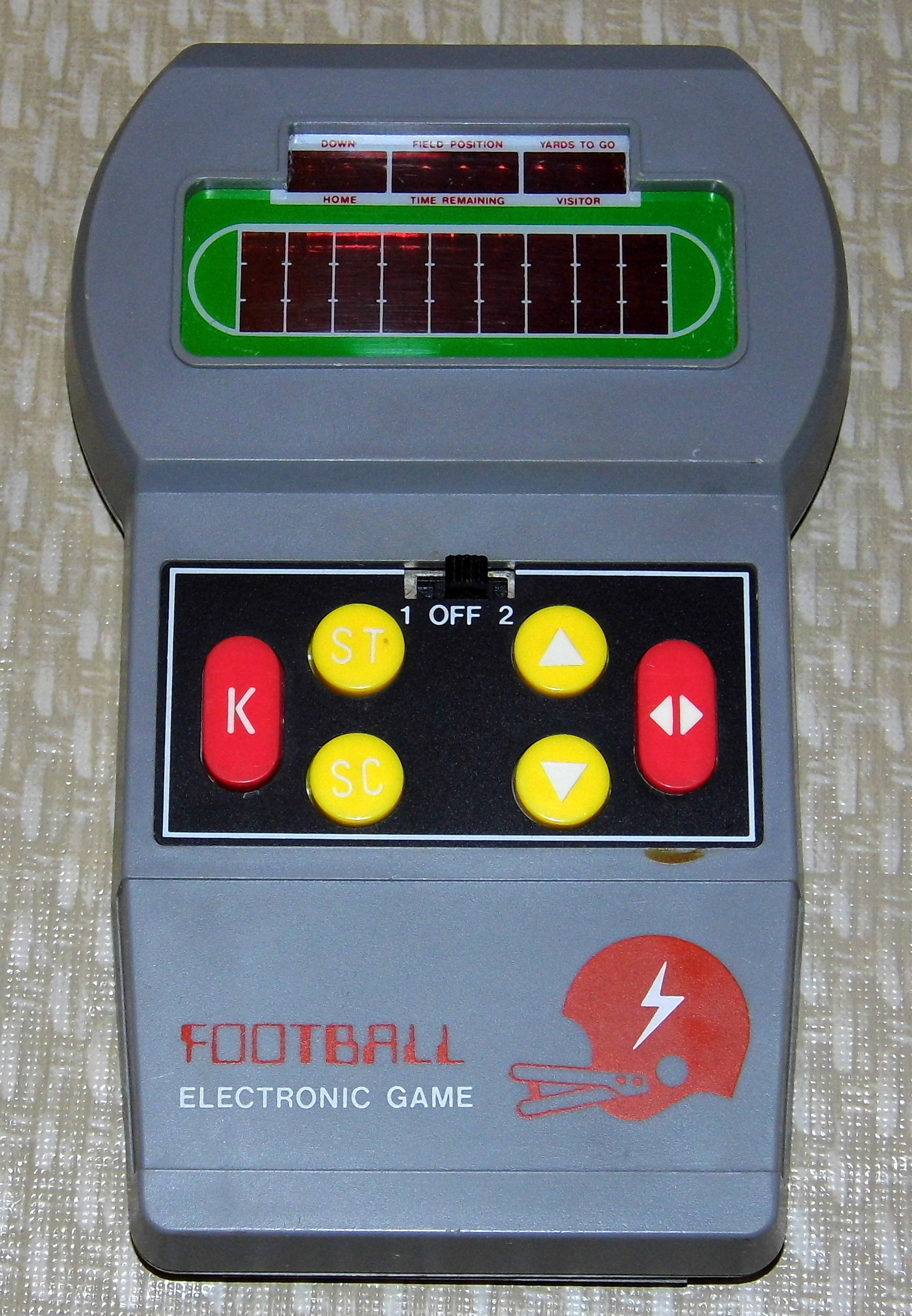 Football Electronic Game, sold by Sears, Model 003201, LED, Circa 1975 (LED Handheld Electronic Game) A good source of information on vintage handheld electronic games is the Electronic Handheld Game Museum .